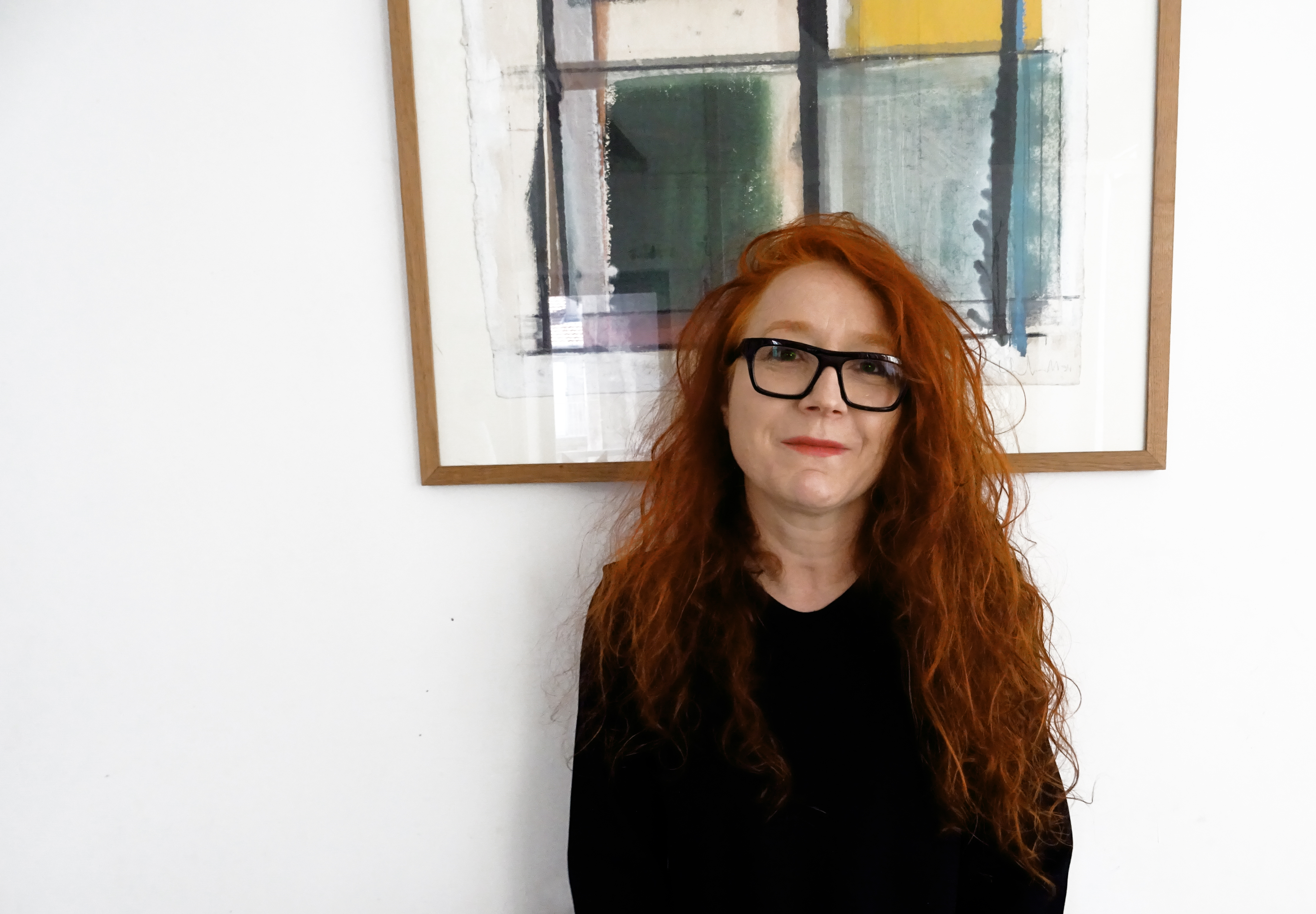 Véronique Gay-Rosier Cahiers intempestifs' publisher and art director